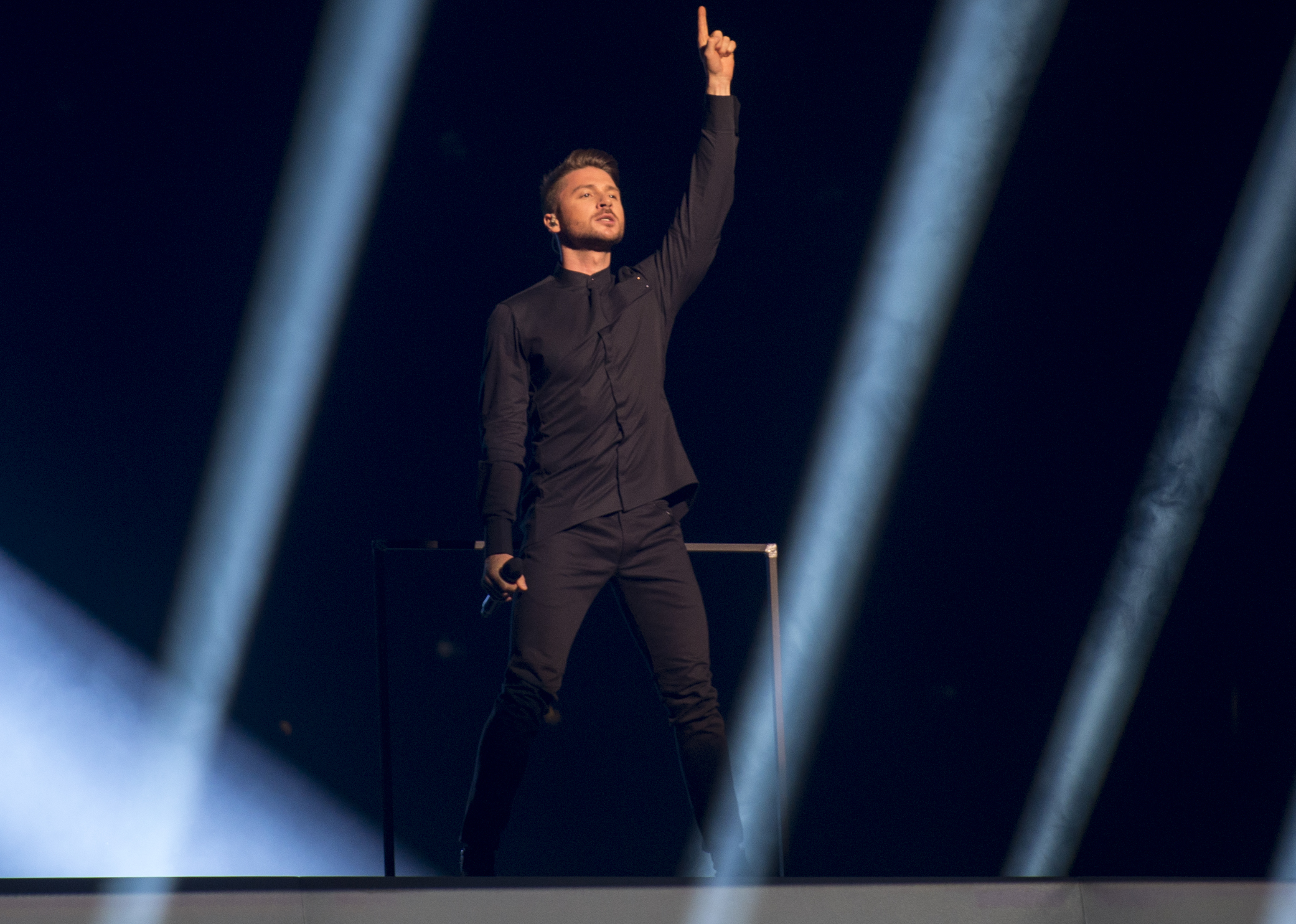 Sergey Lazarev representing Russia with the song "You Are the Only One" during a rehearsal before the first semi final of the Eurovision Song Contest 2016 in Stockholm. (Help translate this text)